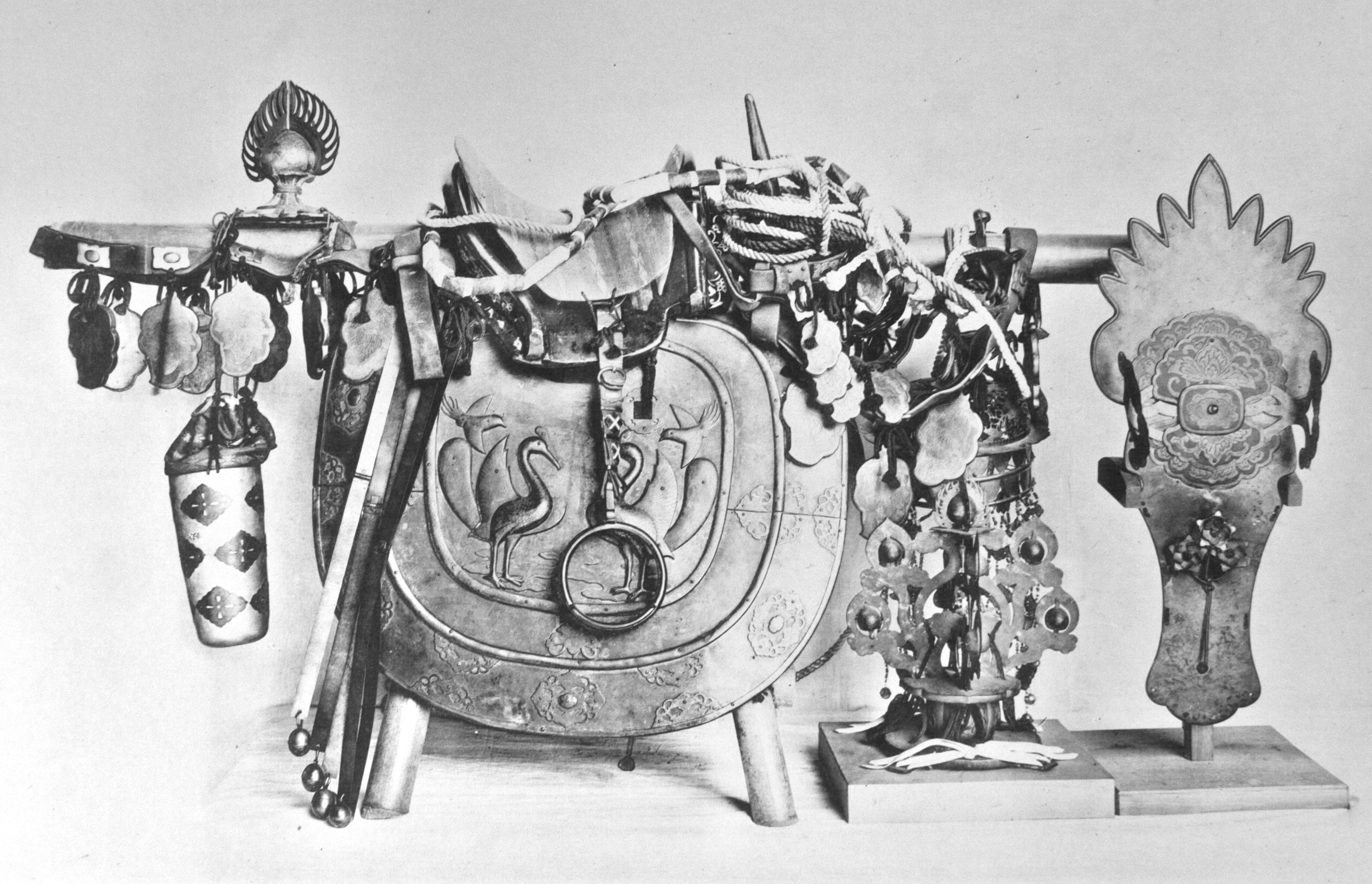 Tamukeyama Hachimangu, Nara, Japan